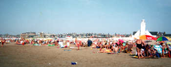 The beach on a warm summer day. 4 July 2006.